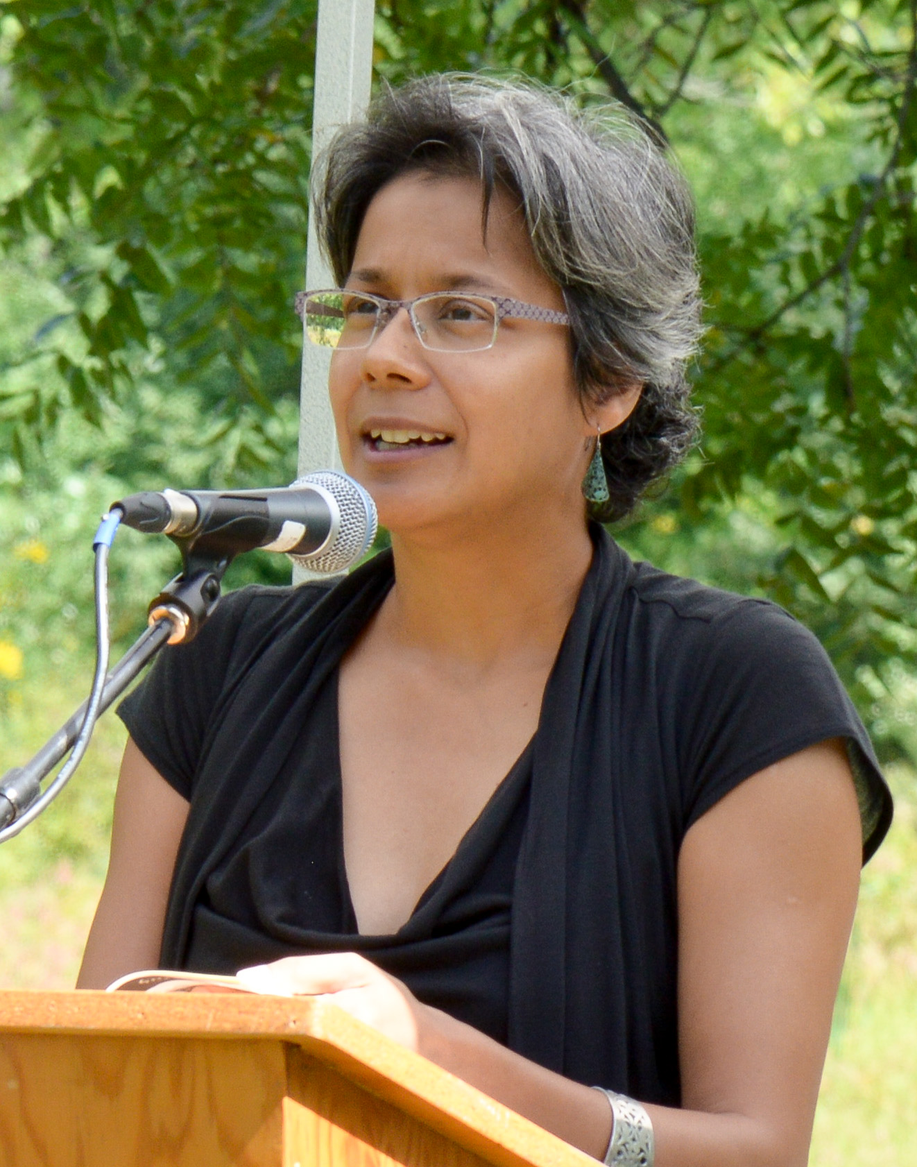 Soraya Peerbave at the Eden Mills Writers' Festival in 2016